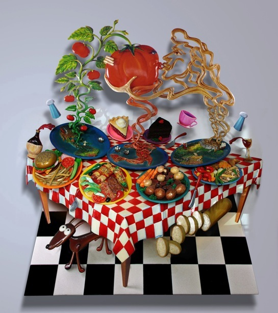 "Spaghetti Meets Tomato" in the collision of the continental plates